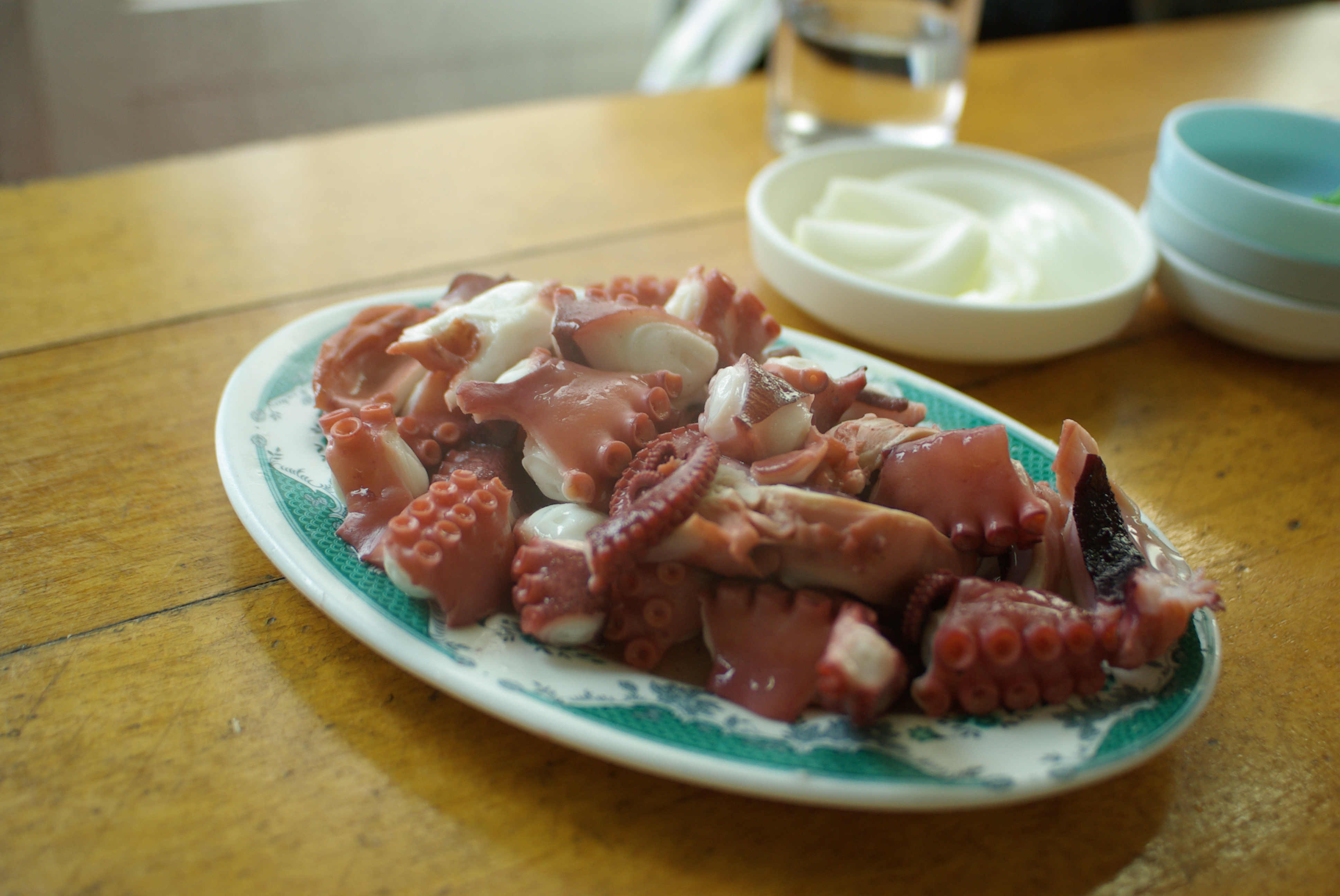 parboiled octopus dish 문어숙회